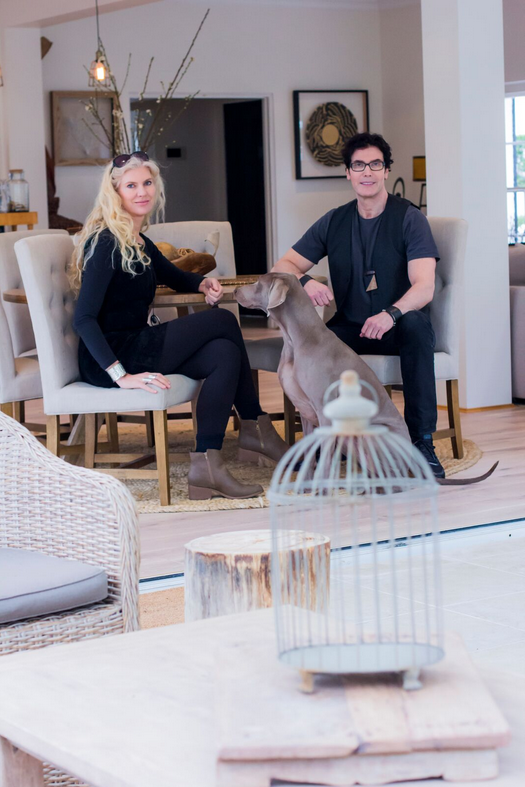 Gillie and Marc with their dog Indie in their home, 2017